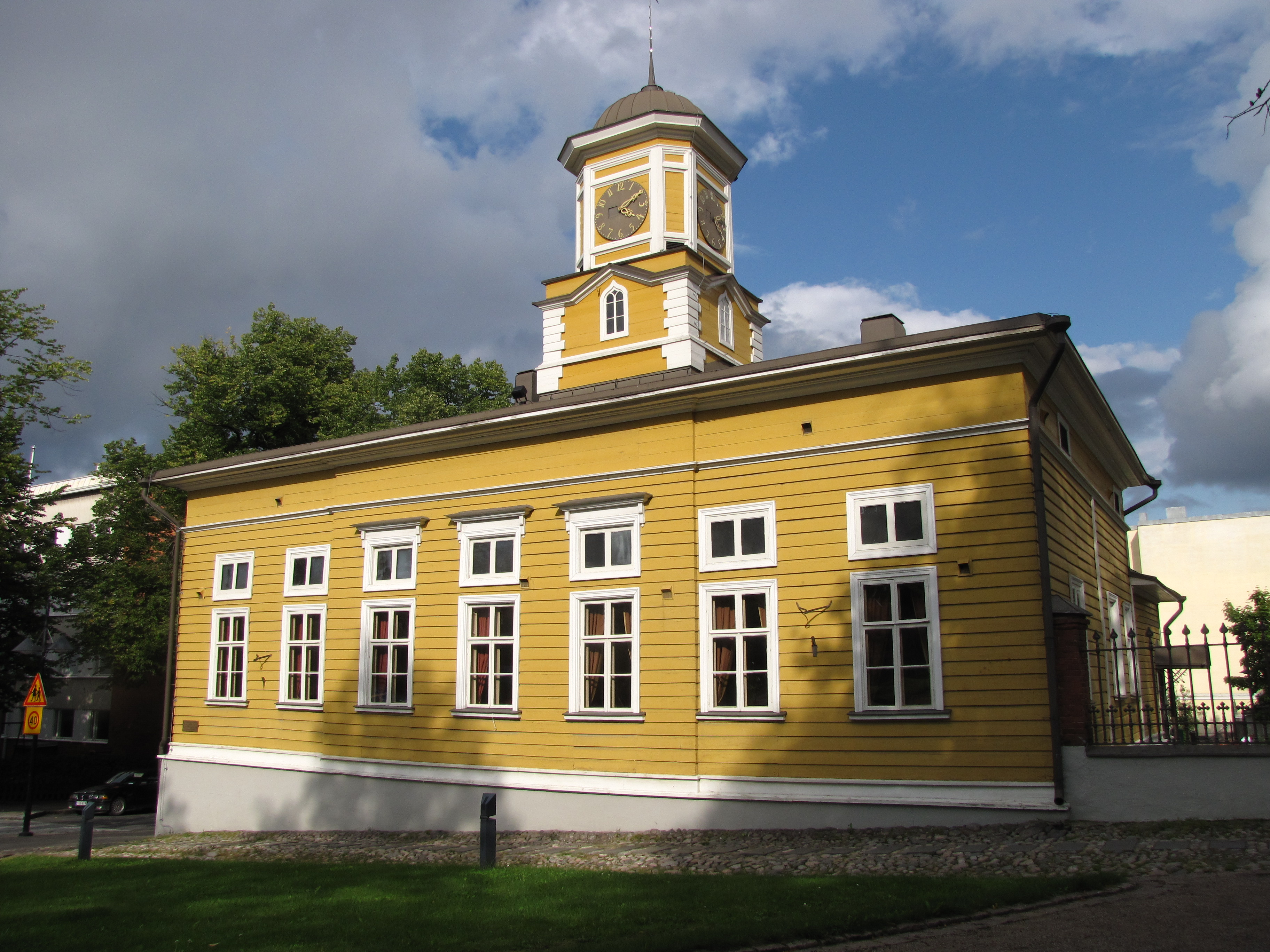 Lappeenranta old town hall.